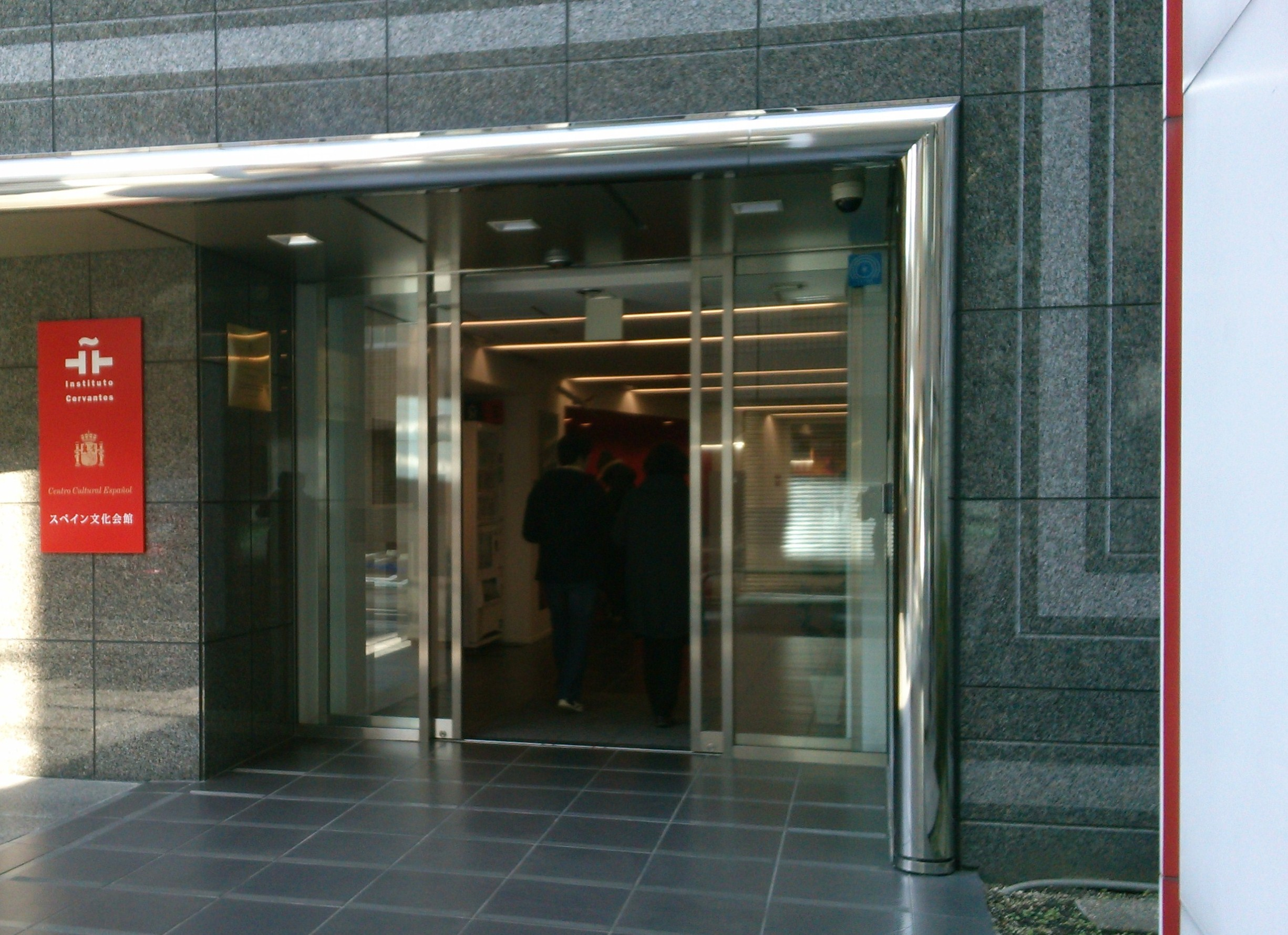 Instituto Cervantes Tokio is a Spanish cultural institution in Chiyoda ward, Tokyo, Japan.